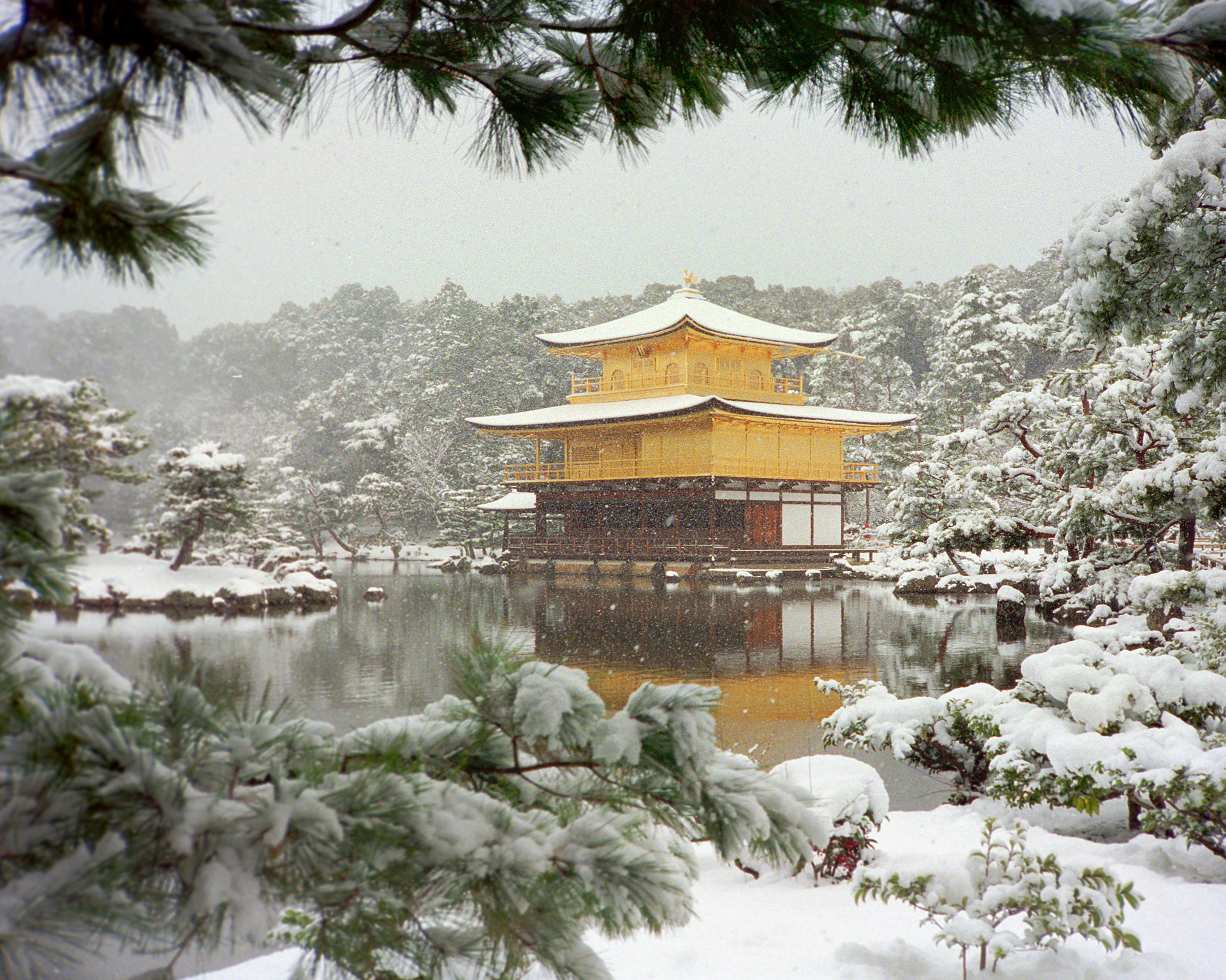 Kinkaku at Kinkakuji (Rokuonji), a Buddhist temple in Kyoto, Japan. I took this photo and contribute it to the public domain, although persons or organizations may retain rights to images in it.